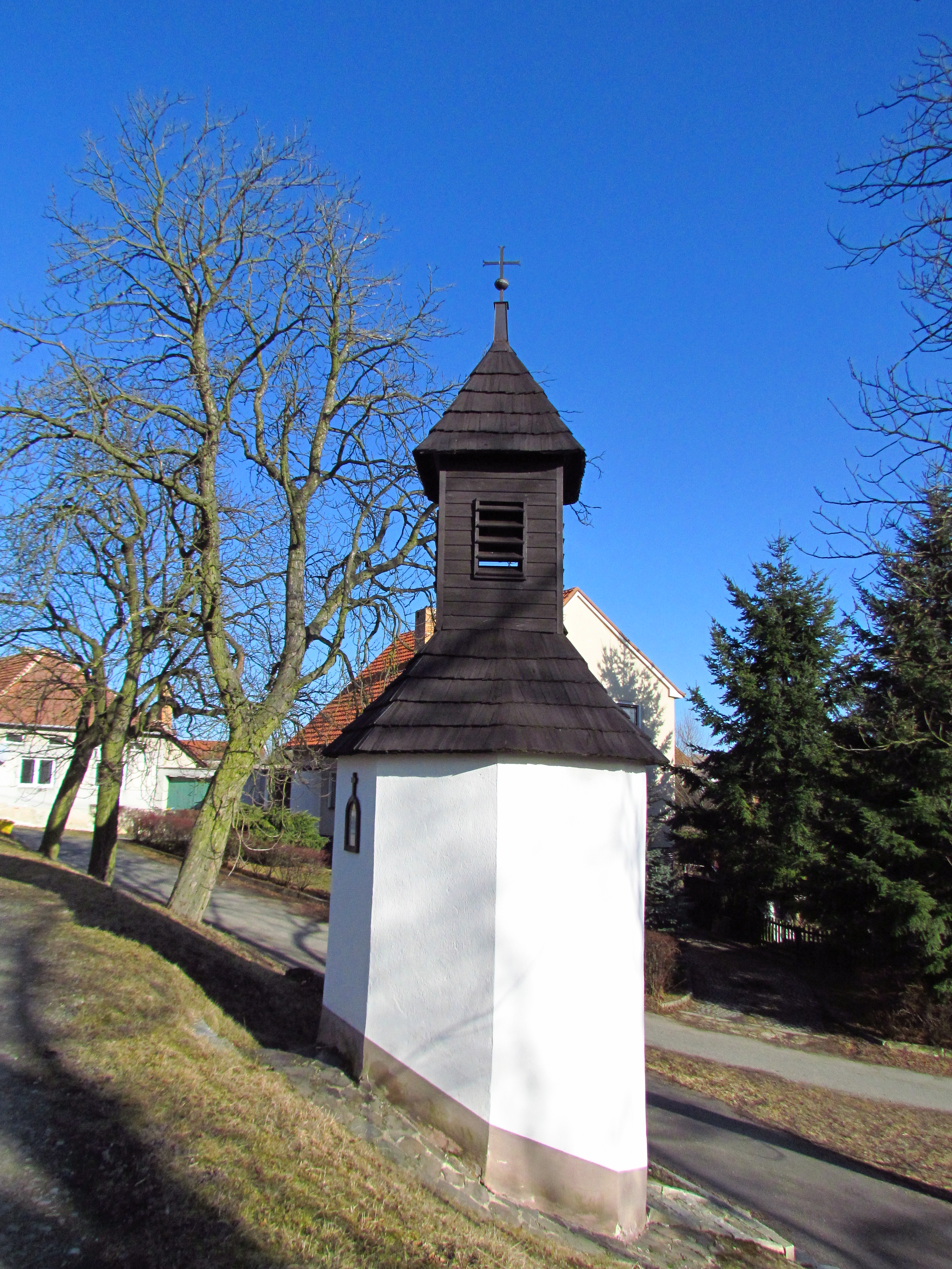 Chapel in Popůvky, Třebíč District.